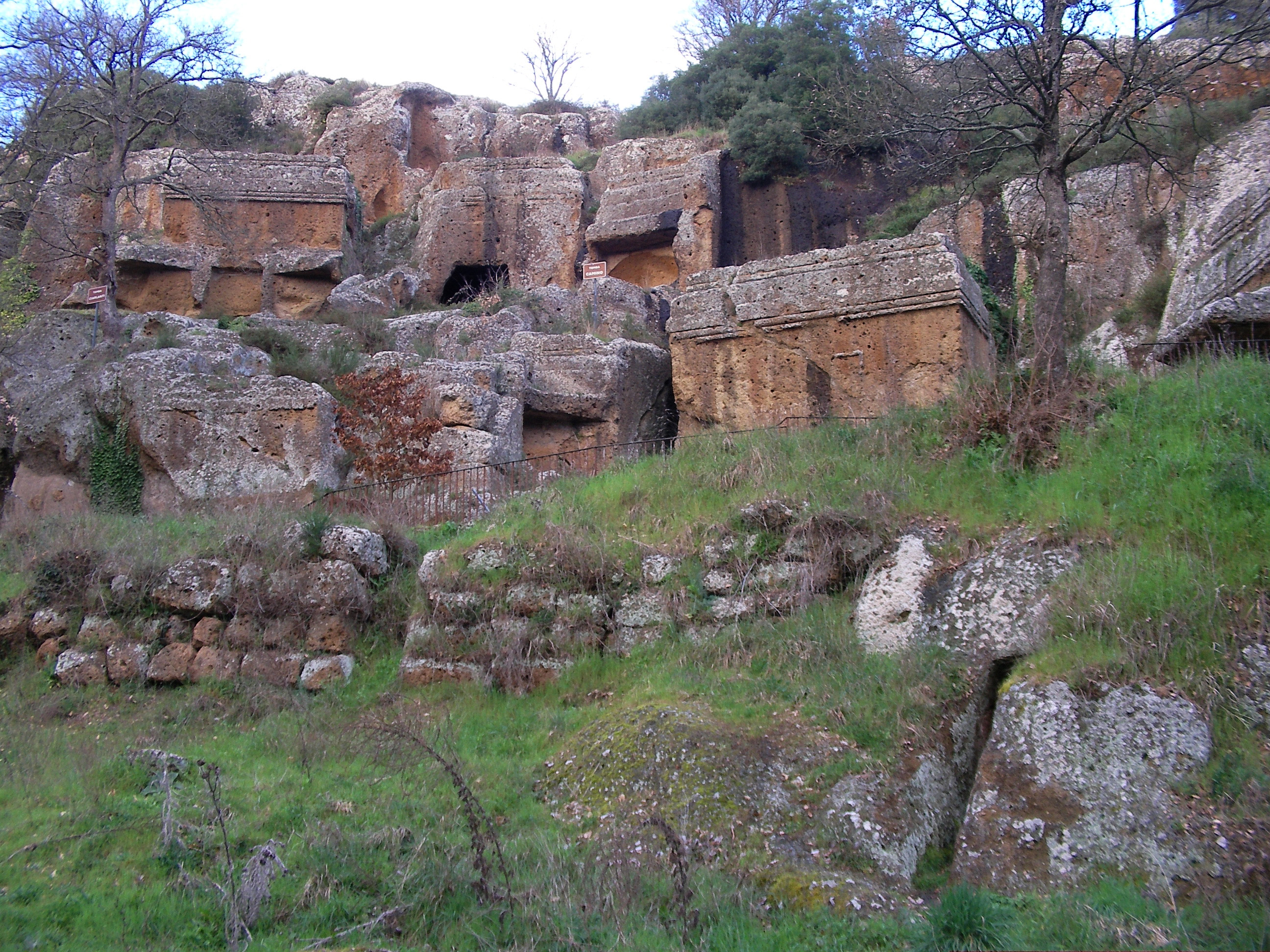 Etruscan Necropolis at Norchia, Italy